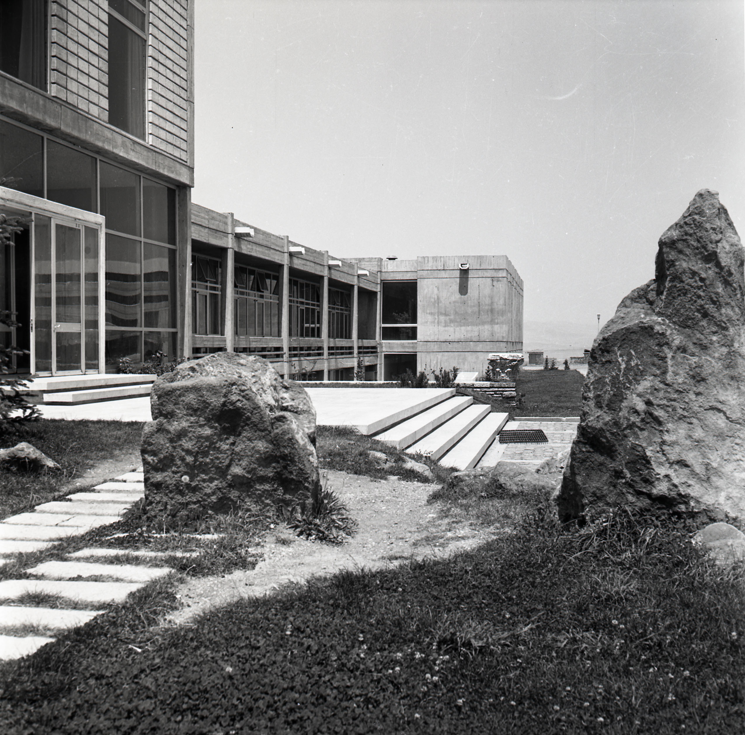 METU, Faculty of Architecture, partial entrance hall, 1961-1980 SALT Research, Altuğ-Behruz Çinici Archive ODTÜ Mimarlık Fakültesi, bölümsel giriş cephesi, 1961-1980 SALT Araştırma, Altuğ-Behruz Çinici Arşivi